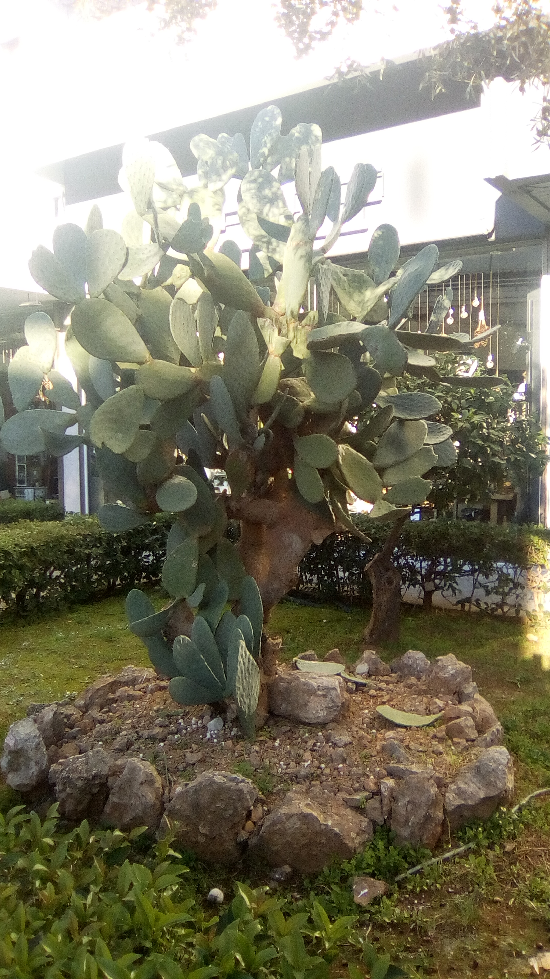 A Cactus tree in Athens, Greece